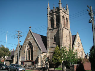 St Paul's Anglican Church, Burwood Rd, Burwood, New South Wales. Built in 1871 and designed by Edmund Blacket.